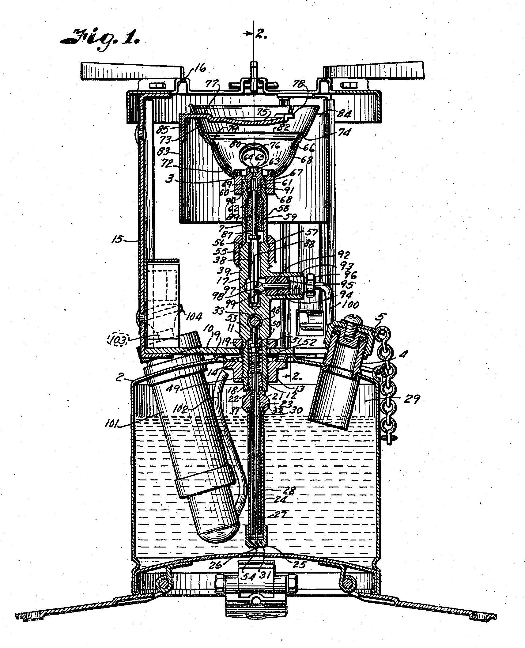 Patent Drawing Showing Coleman Model 520 Stove - No. 2363098